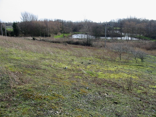 Black Lake from Fowlmead Country Park The lake is part of the Cottington Lakes coarse fisheries and the photograph is taken from the spoil heap of Betteshanger colliery which has been made into a country park.